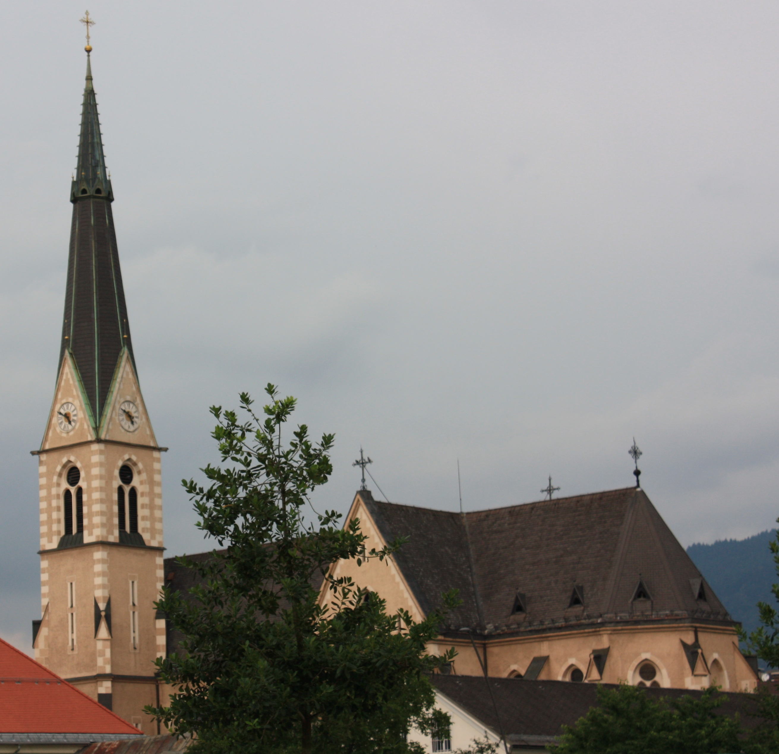 Parish church Saint Nikolaus, seen from South-east Street:Nikolaiplatz Community:Villach